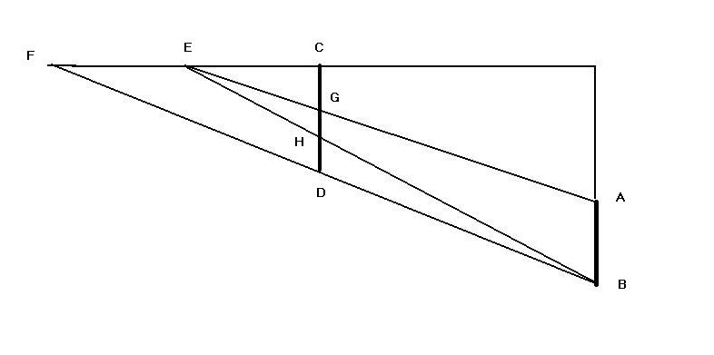 Sea Island Math Manual Q&A 6 《海岛算经》东南望波口示意图